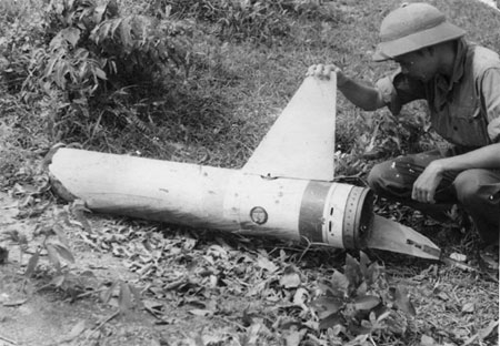 Remains of an AGM-45 Shrike missile in North Vietnam, in December 1968.